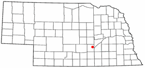 Location of Grand Island in Nebraska